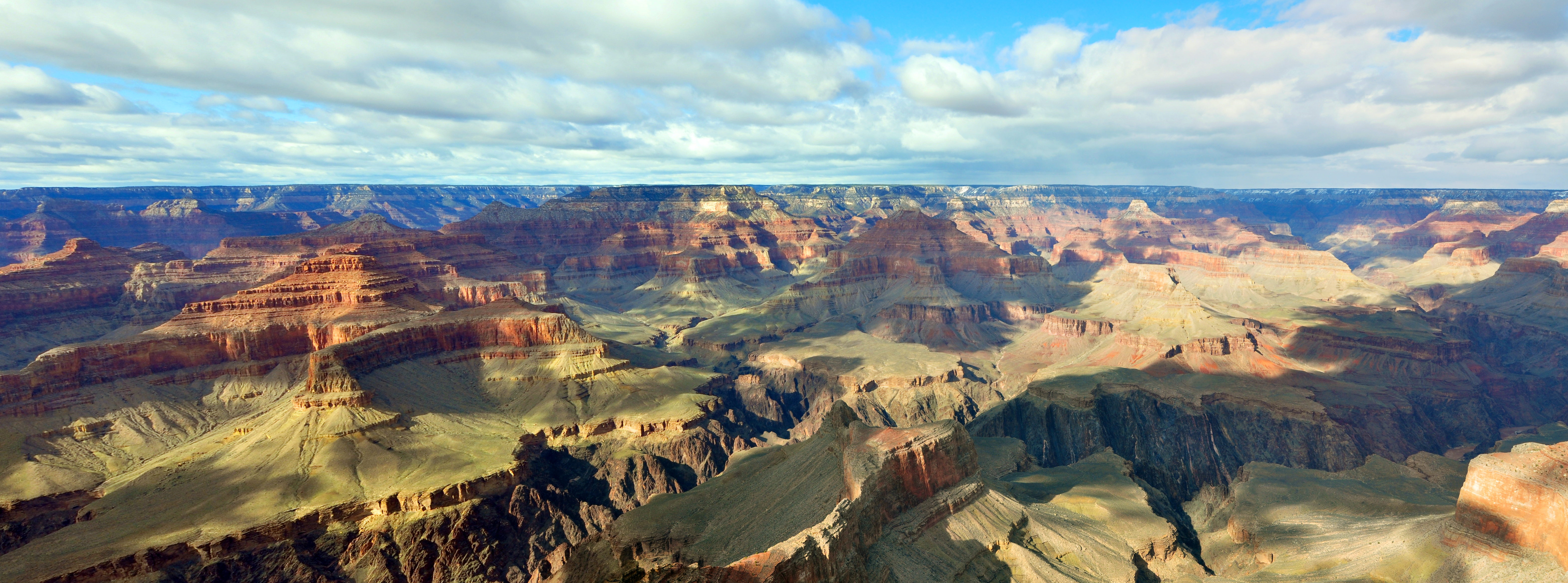 Grand Canyon Arizona panorama 2010